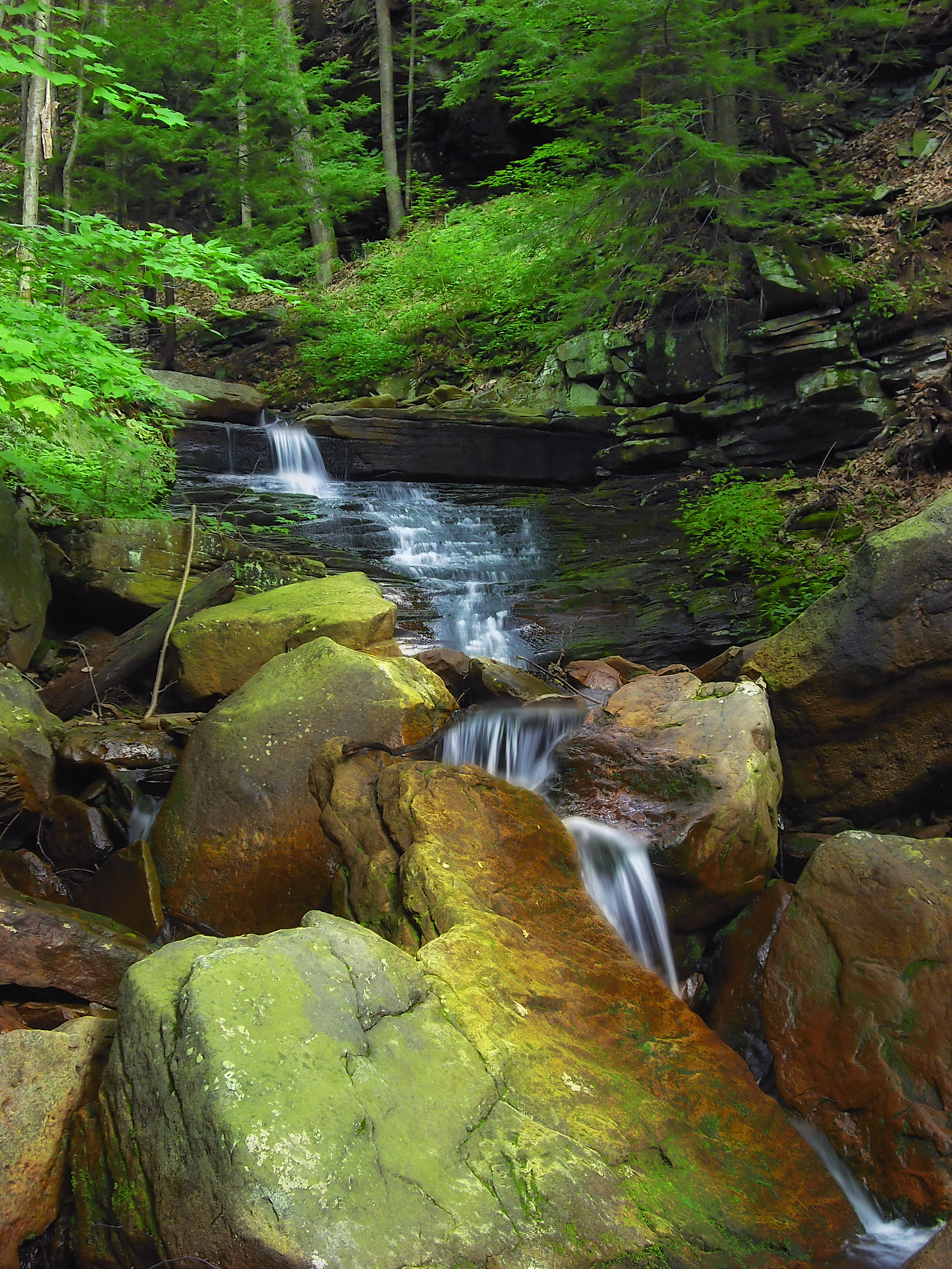 Falls Creek, Bradford County. The creek features many waterfalls, all officially unnamed, that are accessible by bushwhacking through State Game Land 36. Acid and iron contamination from long-abandoned strip mines discolors the creek rocks, turning them rust-orange.